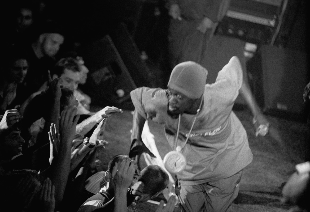 Hamburg/Germany 2000